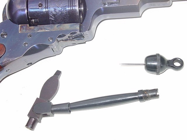 Replica of original combination tool for Colt Paterson. Includes loading ram/lever, cone wrench, cone pick, screwdriver.